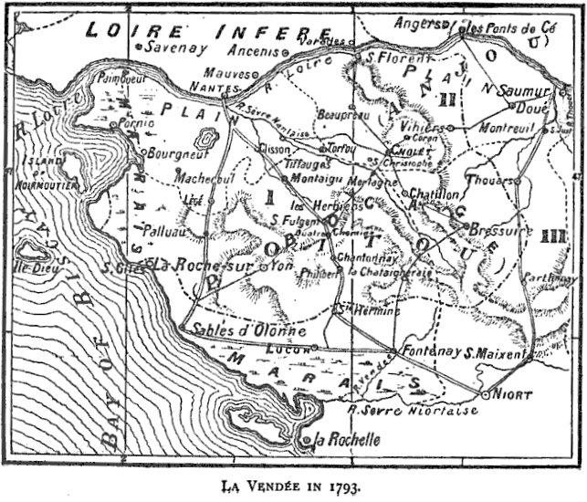 Map of the Vendee region of France in 1793. It is on page 123 in a book "Francois-Severin Marceau (1769-1796)" by Thomas George Johnson published in 1896 in London.